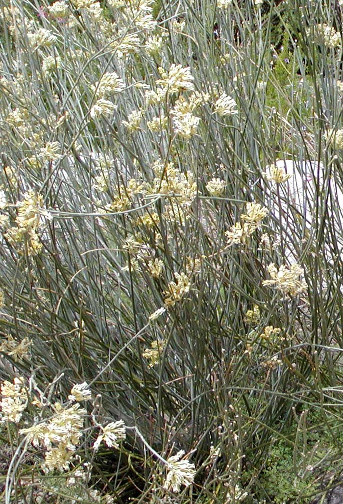 Photo of Asclepias subulata (desert milkweed) at the Desert Demonstration Garden in Las Vegas